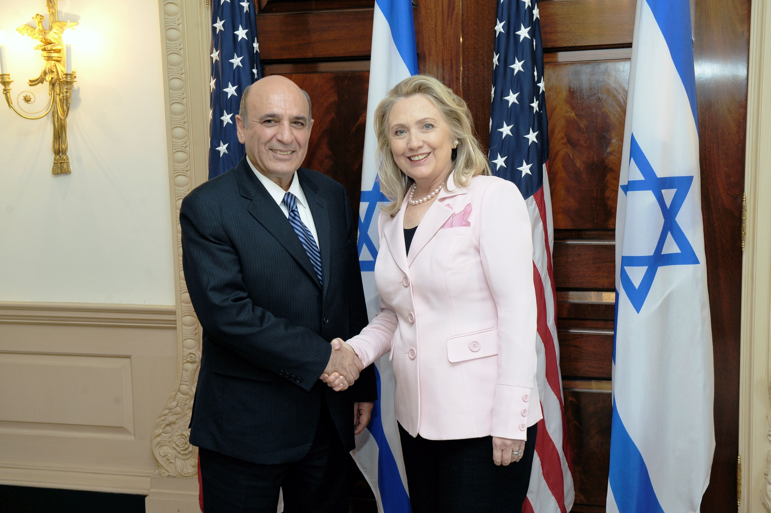 U.S. Secretary of State Hillary Rodham Clinton meets with Israeli Deputy Prime Minister Shaul Mofaz at the U.S. Department of State in Washington, D.C., on June 20, 2012. [State Department photo/ Public Domain]